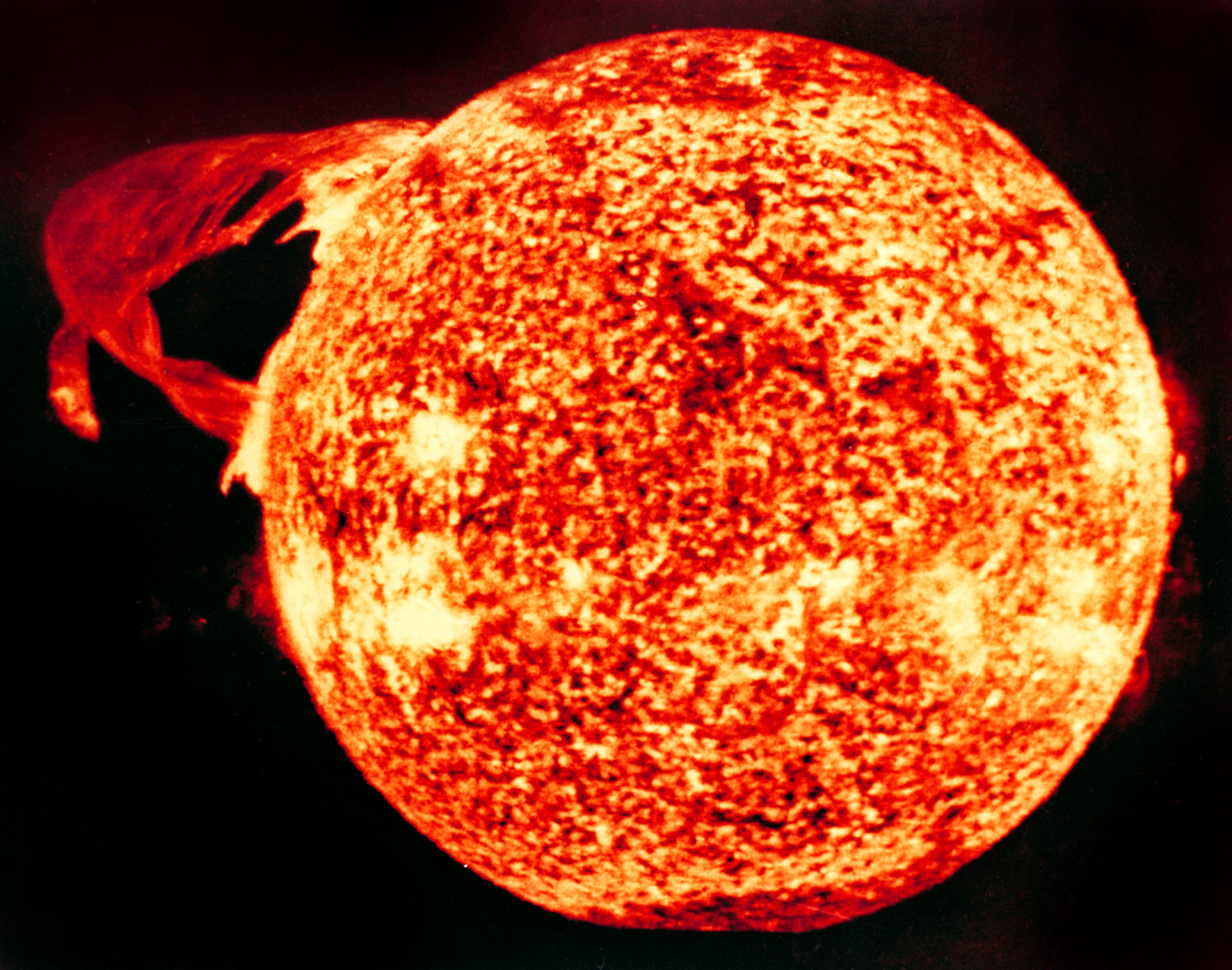 This photograph of the Sun, taken on December 19, 1973, during the third and final manned Skylab mission, shows one of the most spectacular solar prominences ever recorded, spanning more than 588,000 kilometers (365,000 miles) across the solar surface. The loop prominence gives the distinct impression of a twisted sheet of gas in the process of unwinding itself. In this photograph the solar poles are distinguished by a relative absence of supergranulation network, and a much darker tone than the central portions of the disk. Several active regions are seen on the eastern side of the disk. The photograph was taken in the light of ionized helium by the extreme ultraviolet spectroheliograph instrument of the U.S. Naval Research Laboratory.